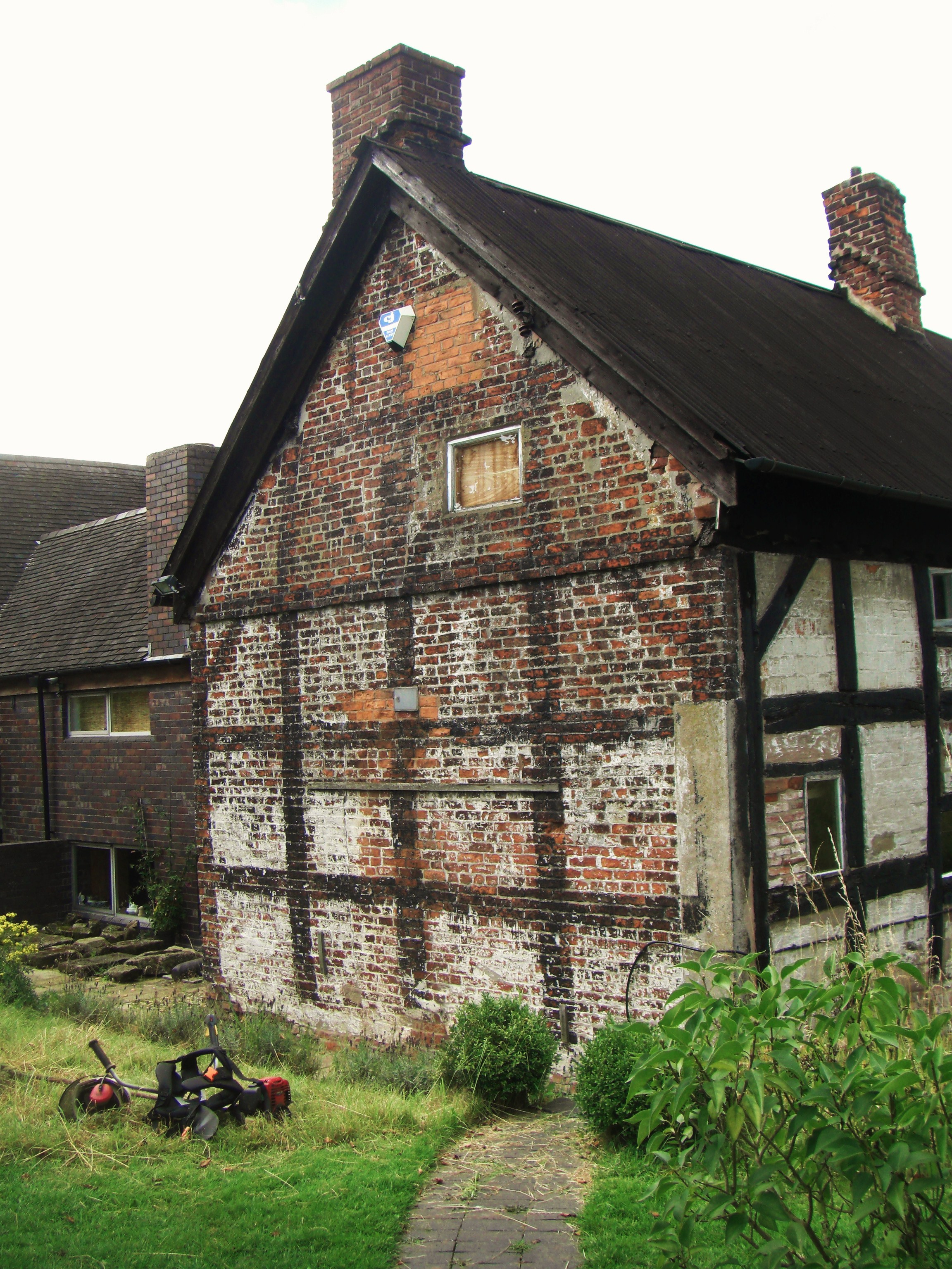 Toad Hall at Blackden, Cheshire, an Early Modern building purchased and renovated by fantasy novelist Alan Garner in 1957.